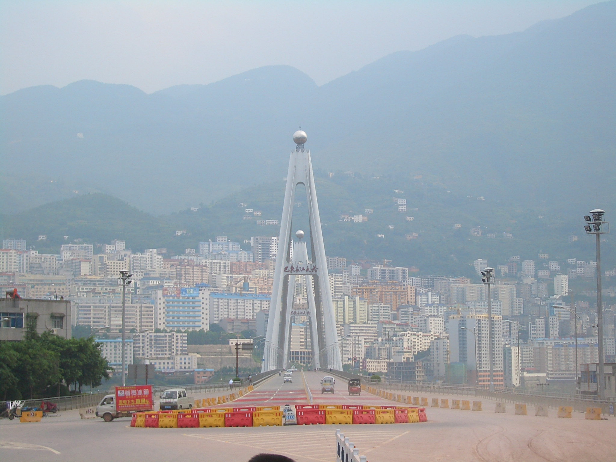 A view of the Chang Jiang, the Badong Bridge, and a section of the port area, from the passenger terminal in Badong